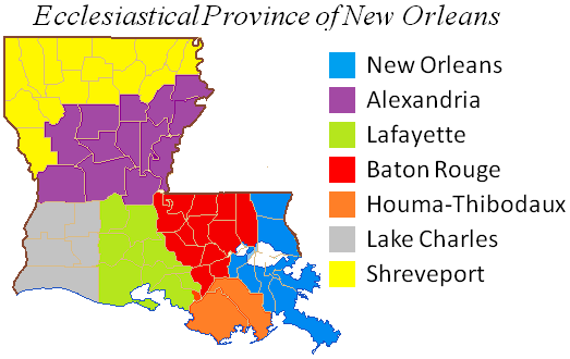 The Province of New Orleans in the Catholic Church encompasses the entire state of Louisiana, USA.